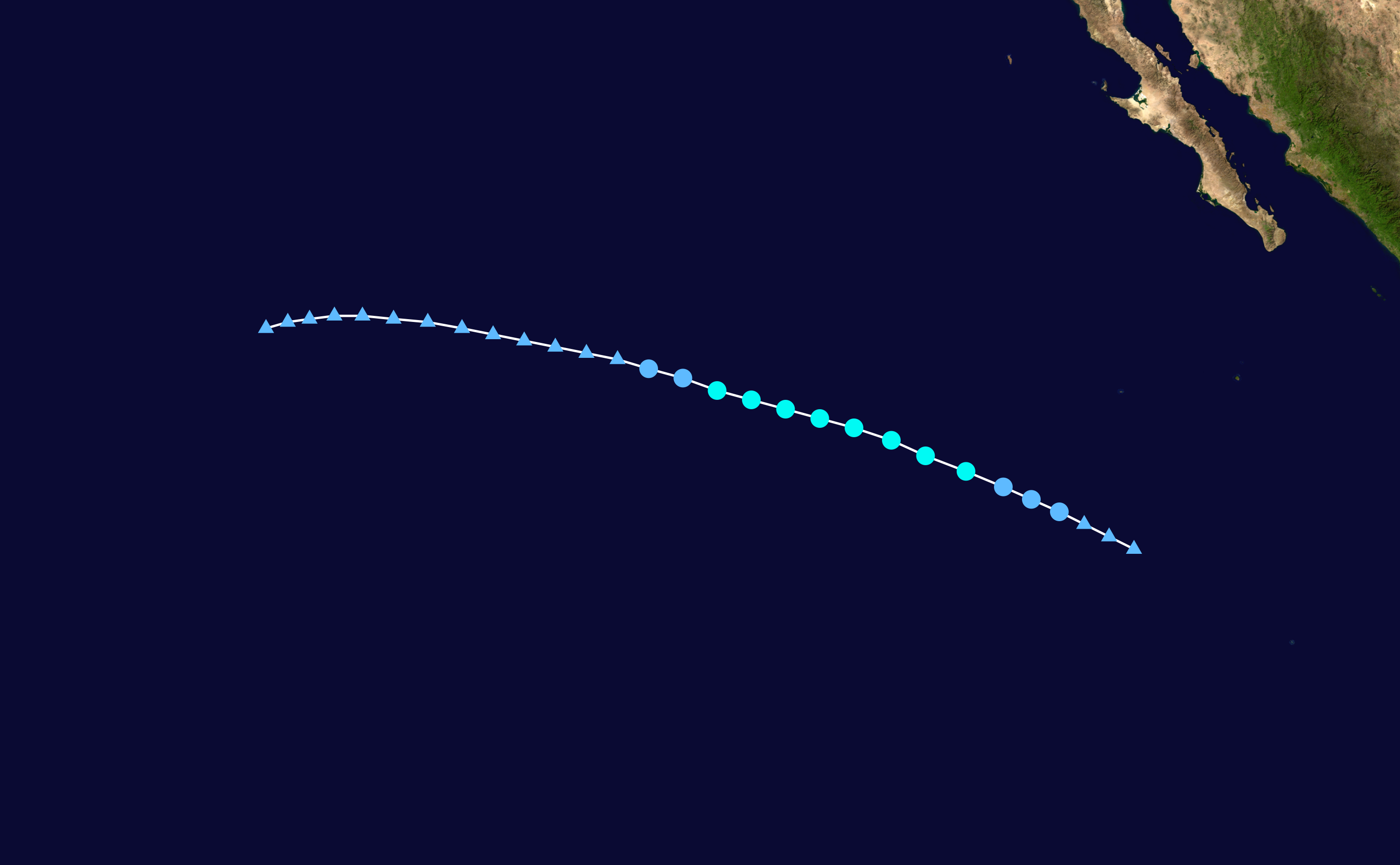 Track map of Tropical Storm Agatha of the 2016 Pacific hurricane season. The points show the location of the storm at 6-hour intervals. The colour represents the storm's maximum sustained wind speeds as classified in the Saffir–Simpson scale (see below), and the shape of the data points represent the nature of the storm, according to the legend below. Saffir–Simpson scale Tropical depression≤38 mph≤62 km/h Category 3111–129 mph178–208 km/h Tropical storm39–73 mph63–118 km/h Category 4130–156 mph209–251 km/h Category 174–95 mph119–153 km/h Category 5≥157 mph≥252 km/h Category 296–110 mph154–177 km/h Unknown Storm type Tropical cyclone Subtropical cyclone Extratropical cyclone / Remnant low / Tropical disturbance / Monsoon depression